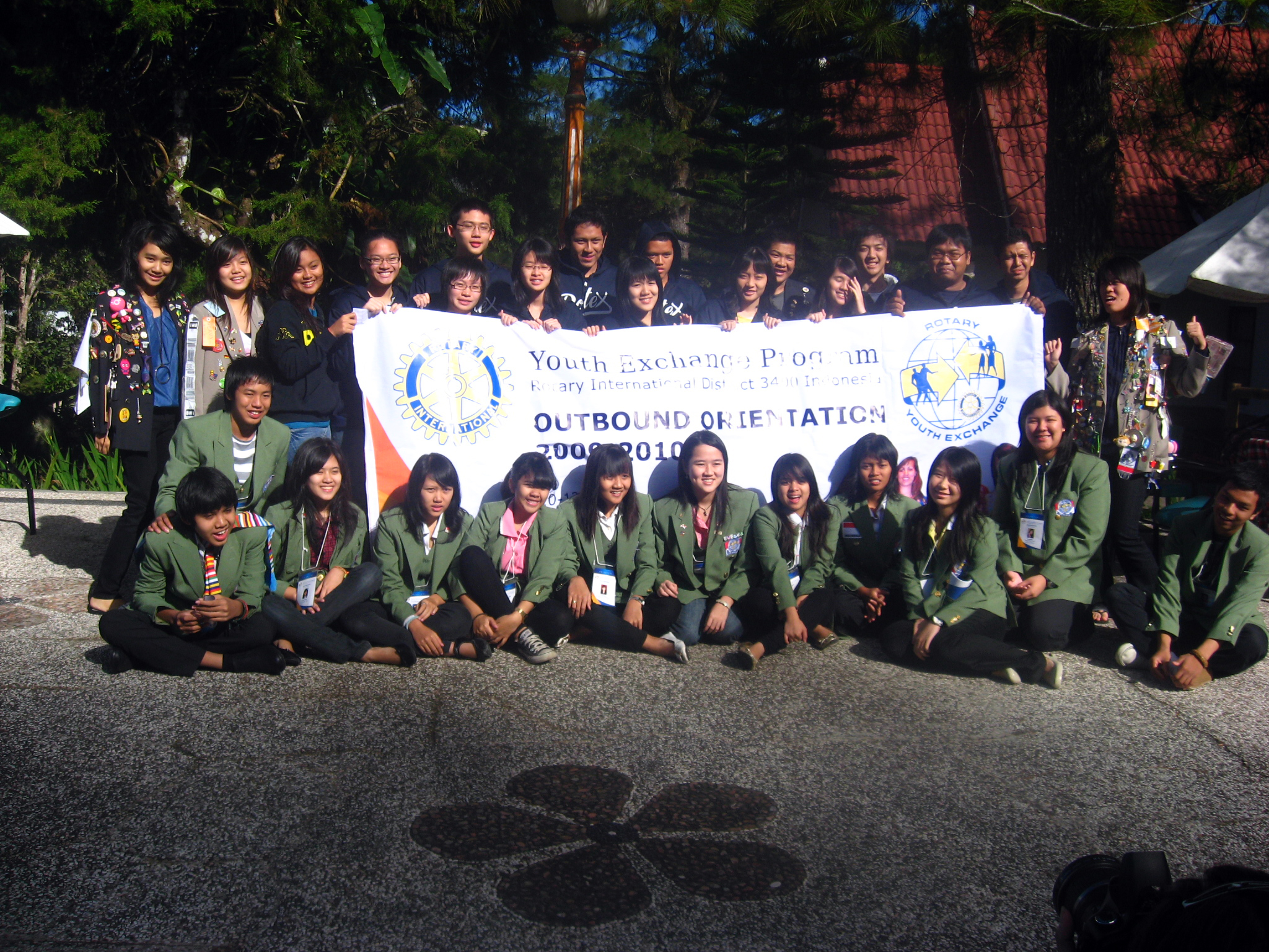 Rotary Youth Exchange students from Indonesia. Outbounds in green blazers and rebounds and rotexes in blue.